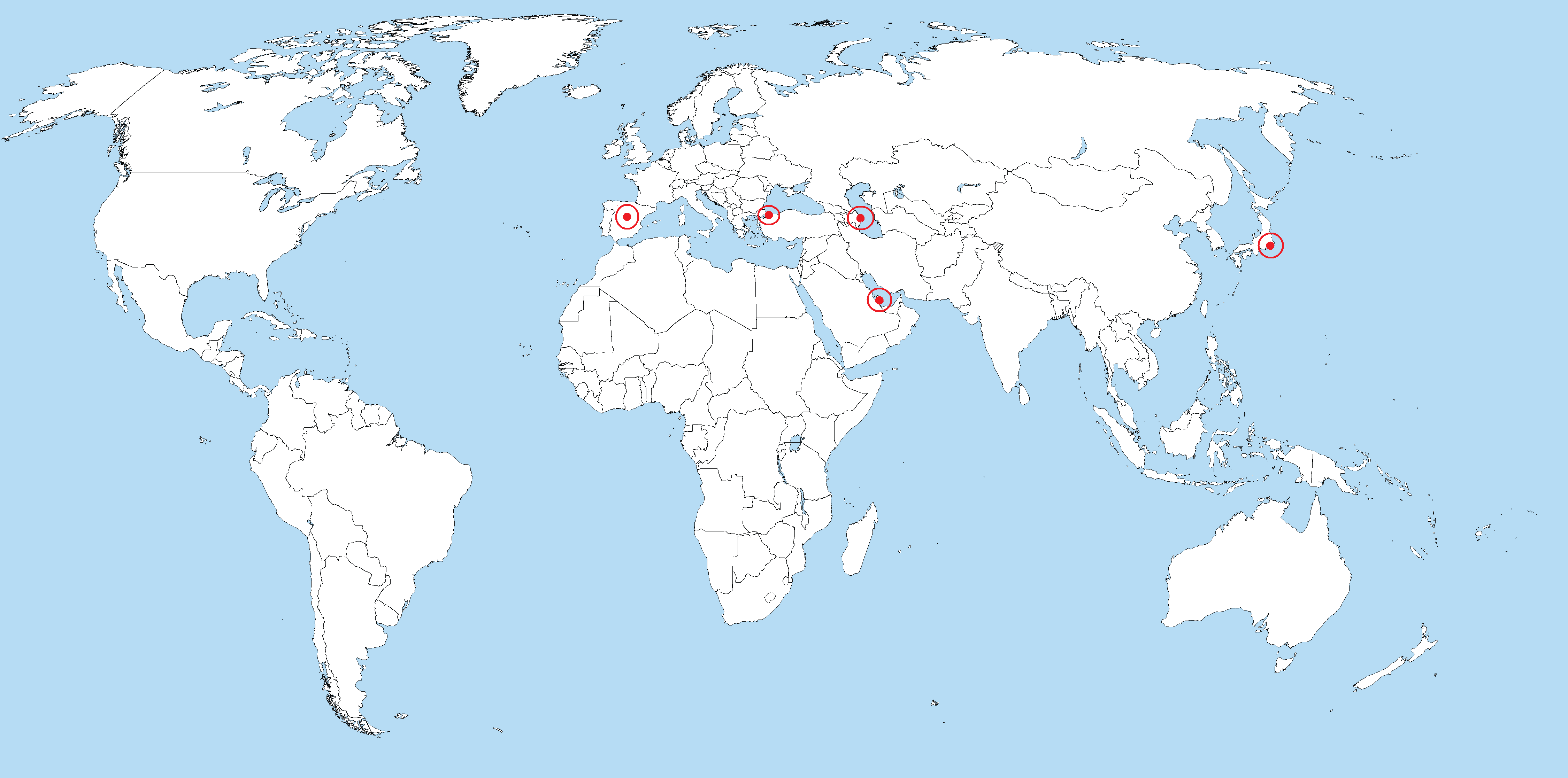 Applicant Cities for Olympics 2020